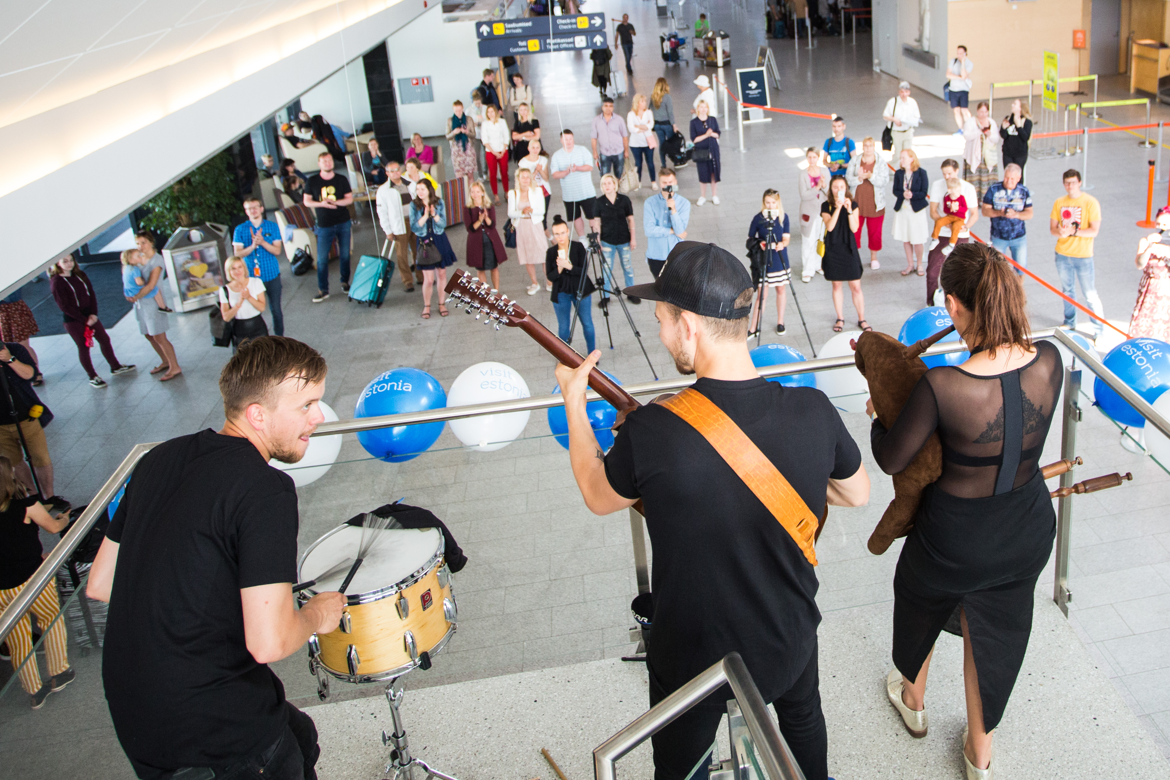 10 July 2017 Photo credit: EU2017EE